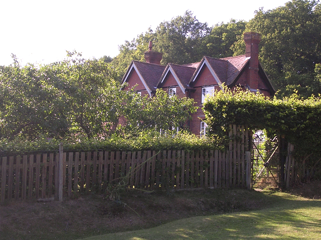 Denny Lodge, Denny Wood, New Forest. This remote dwelling gives its name to the inclosure to the southeast.